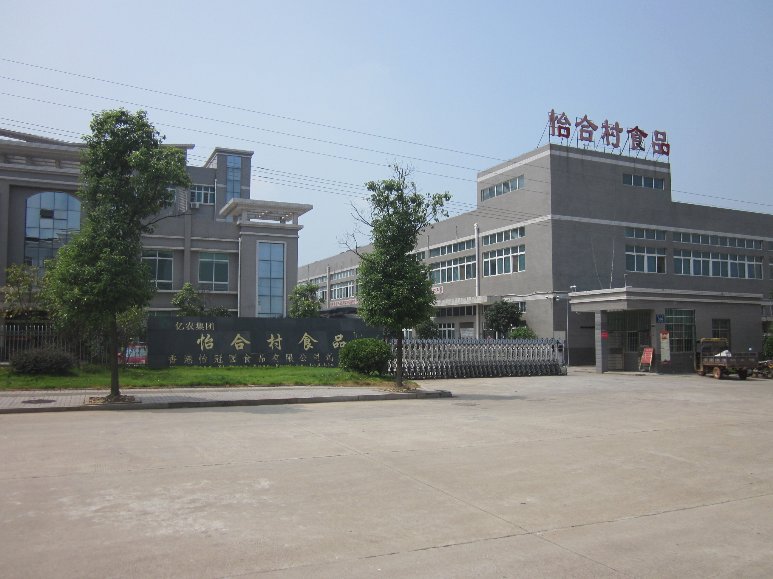 Liuyang Industrial Park (Chinese: 浏阳工业园) is an industrial park established by the government of the People's Republic of China in 1997 to foster scientific and technological development.